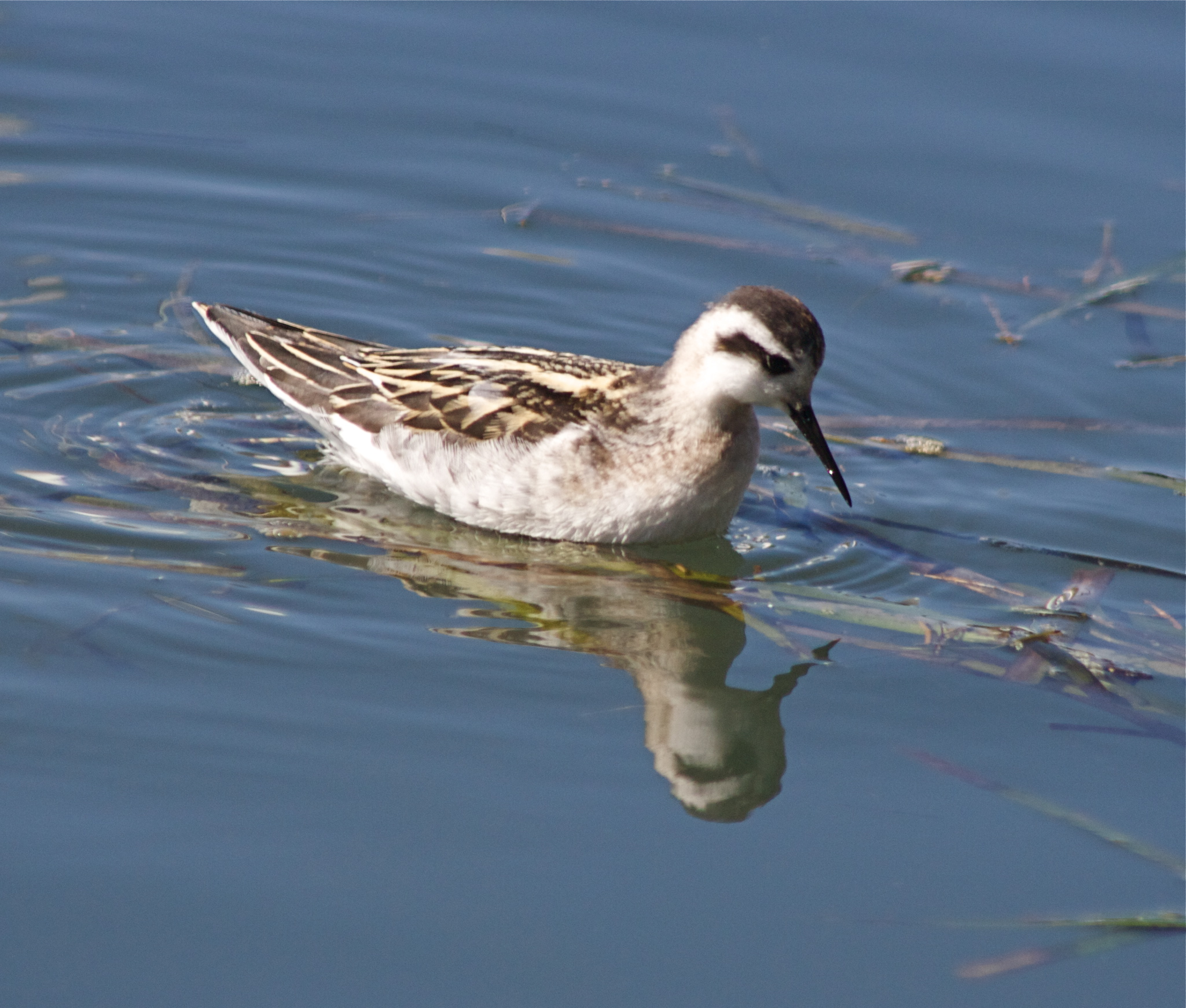 Red-necked Phalarope, winter plumage